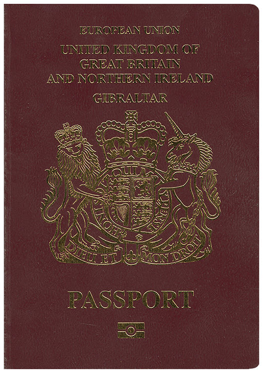 British passport (Gibraltar)